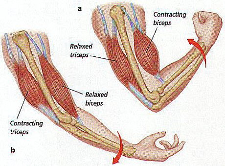 Muscle Contract and Relax